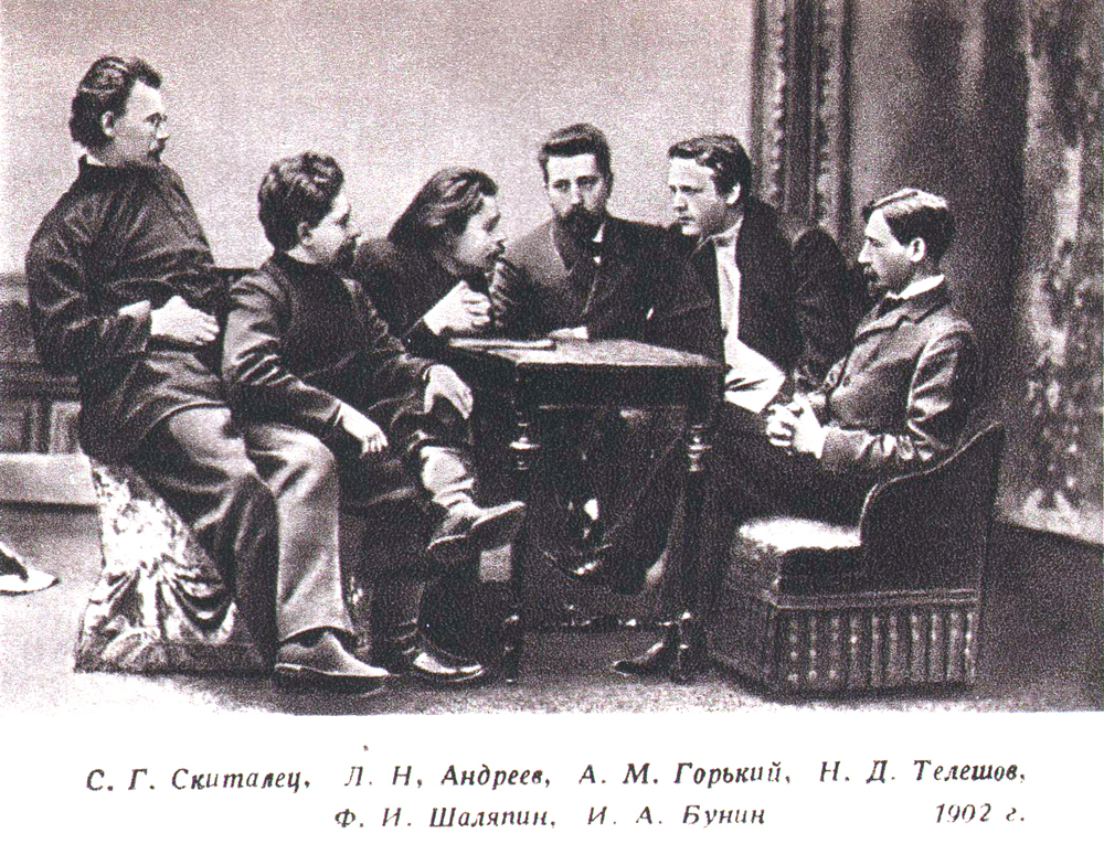 Members of the Moscow literary group "Sreda" (Wednesday) so-named because they met on Wednesdays. From left to right: S.G.Skitalets, L.N.Andreev, M.Gorky, N.D.Teleshov, Russian bass, Feodor Chaliapin, I.A.Bunin, (without E.N.Chirikov), 1902